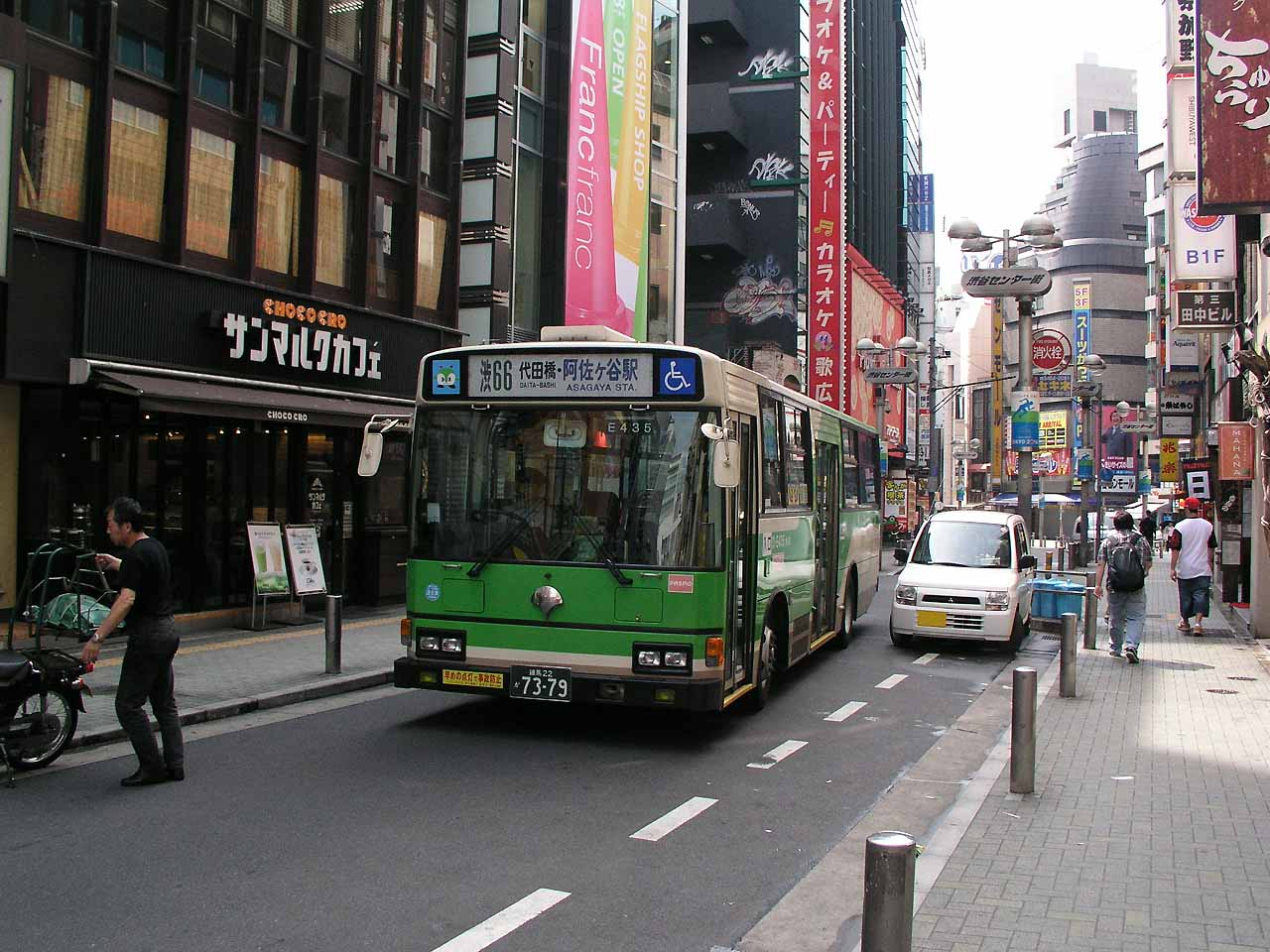 Toei Bus "Shibu 66" route in Inokashira Street. Model: Hino Blue Ribbon KC-HU2MLCA License plate: TKN22 KA7379 Place: Udagawacho, Shibuya Ward, Tokyo Japan